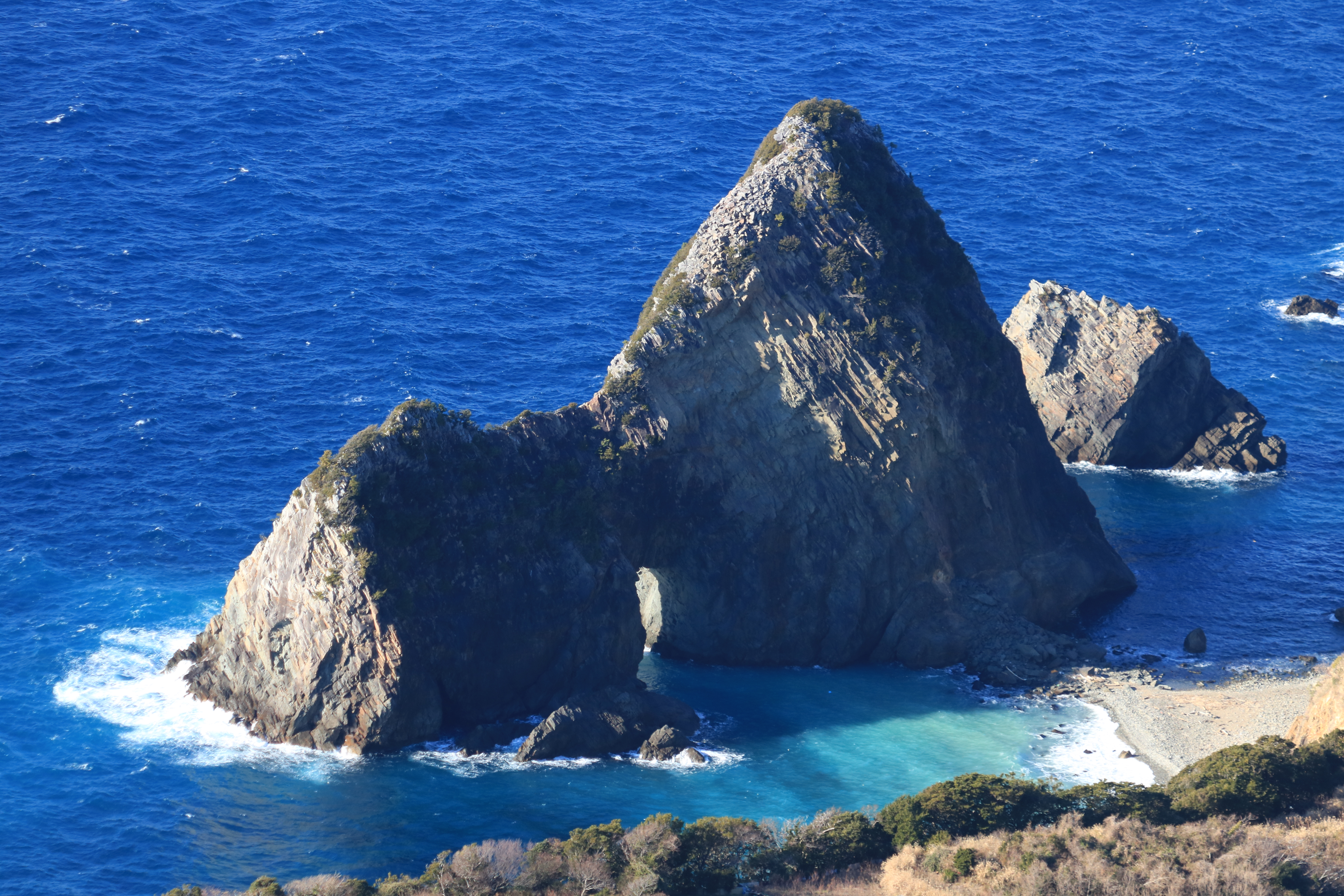 Senganmon seen from Mount Takato in Shizuoka Prefecture, Japan.